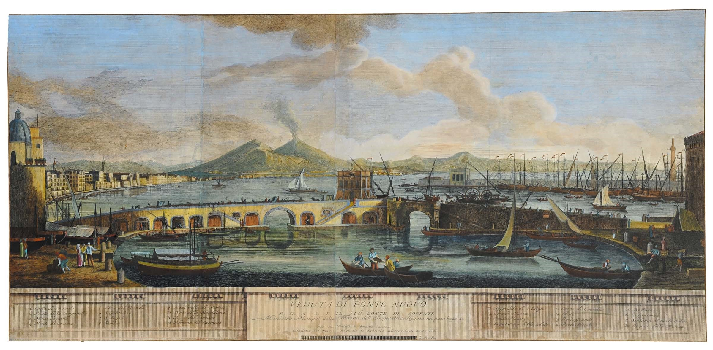 Veduta di Ponte Nuovo, double-sheet etching, 41 x 85 cm. One of the four plates designed by Ricciardelli and etched by Cardon.